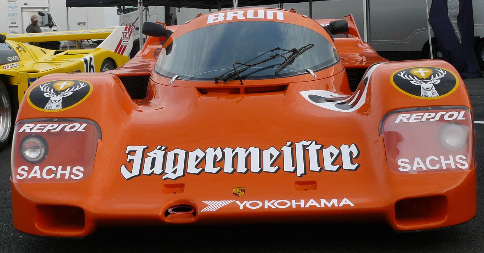 A Porsche 962C at the Silverstone Classic